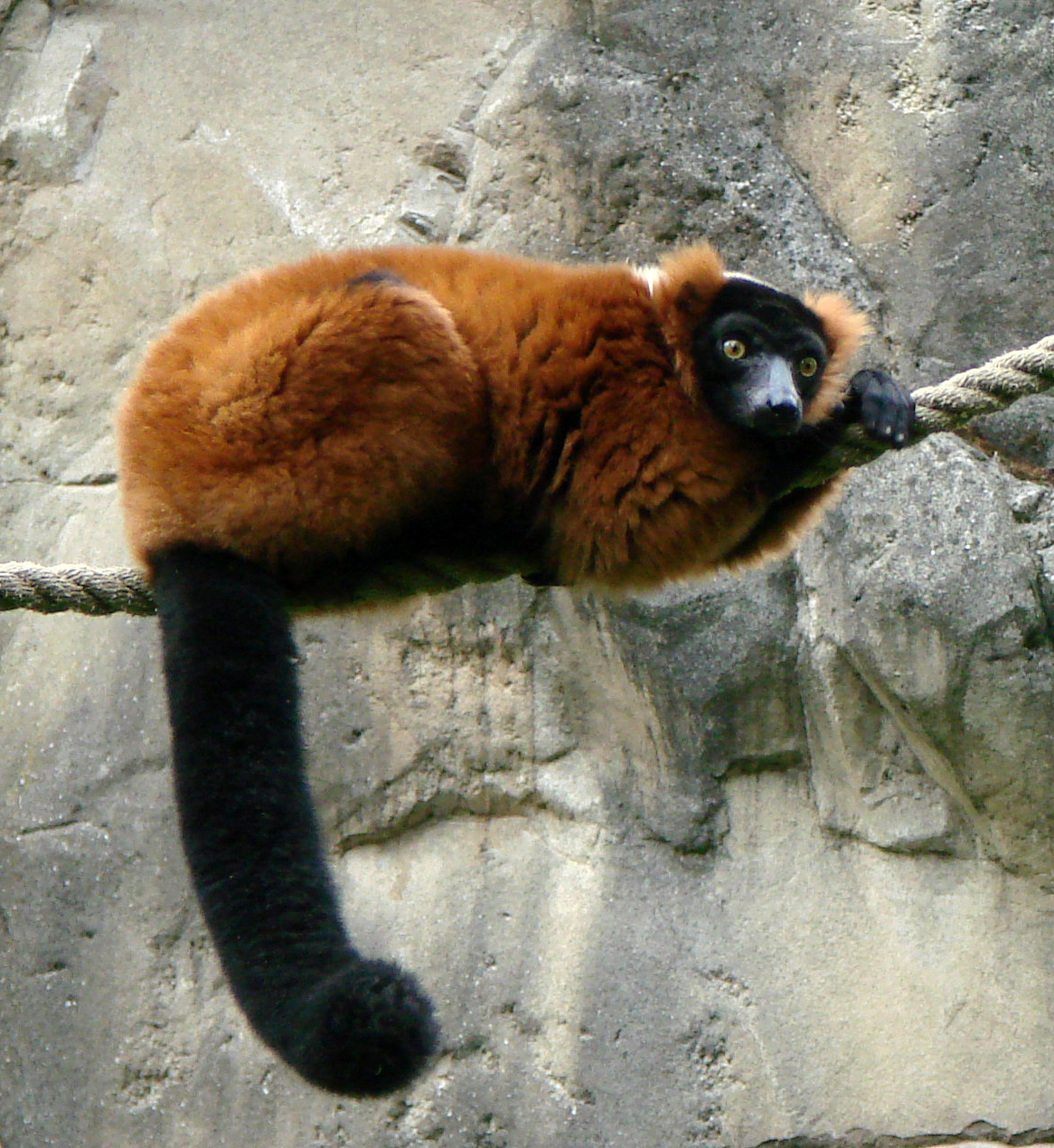 Red Ruffed Lemur (Varecia rubra). Amiens Zoo.